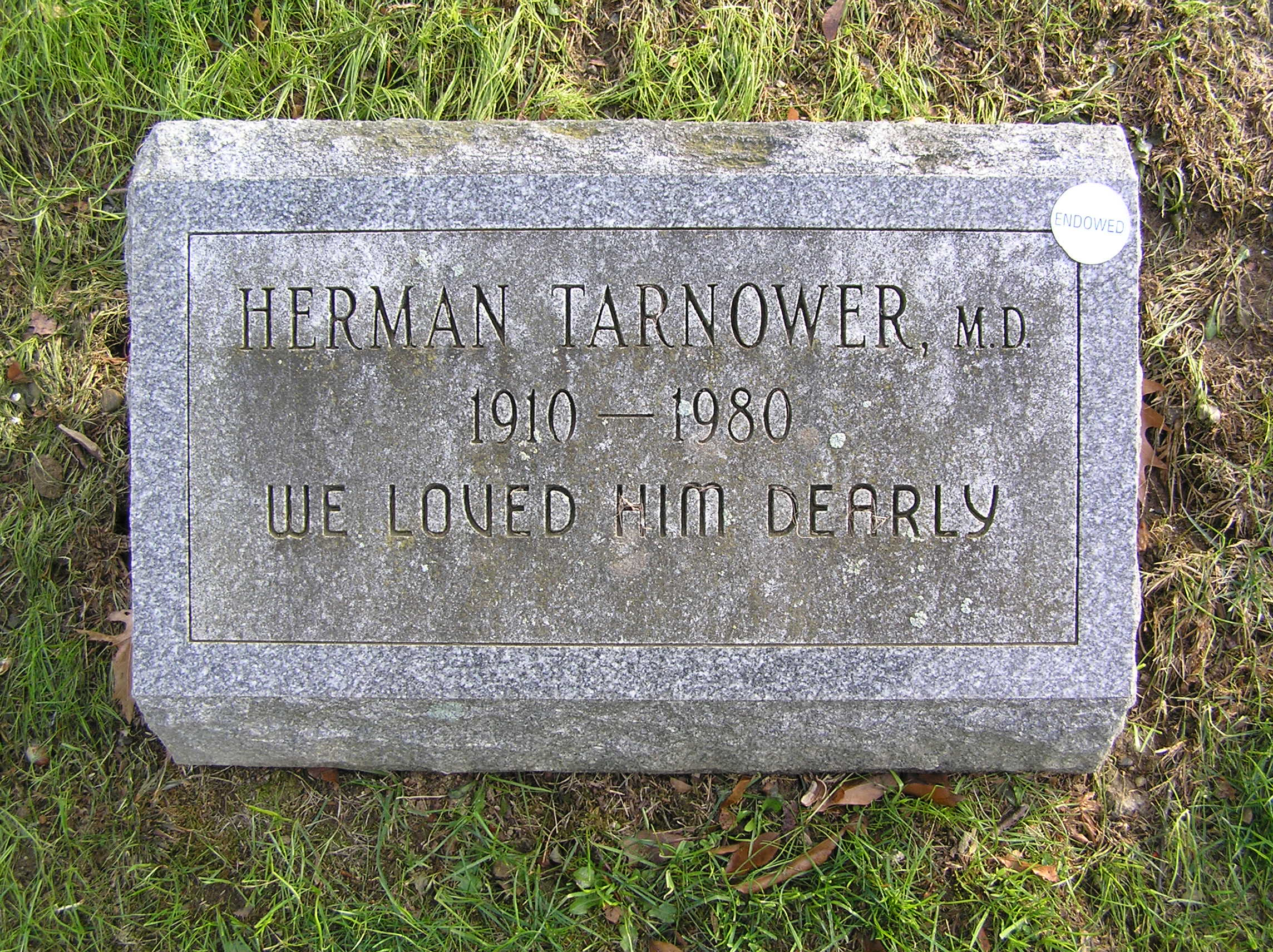 A photograph of the gravesite of Herman Tarnower in the Larchmont Temple section of Mount Hope Cemetery. The section is located on a sloping hill about 400 yards behind the main office.